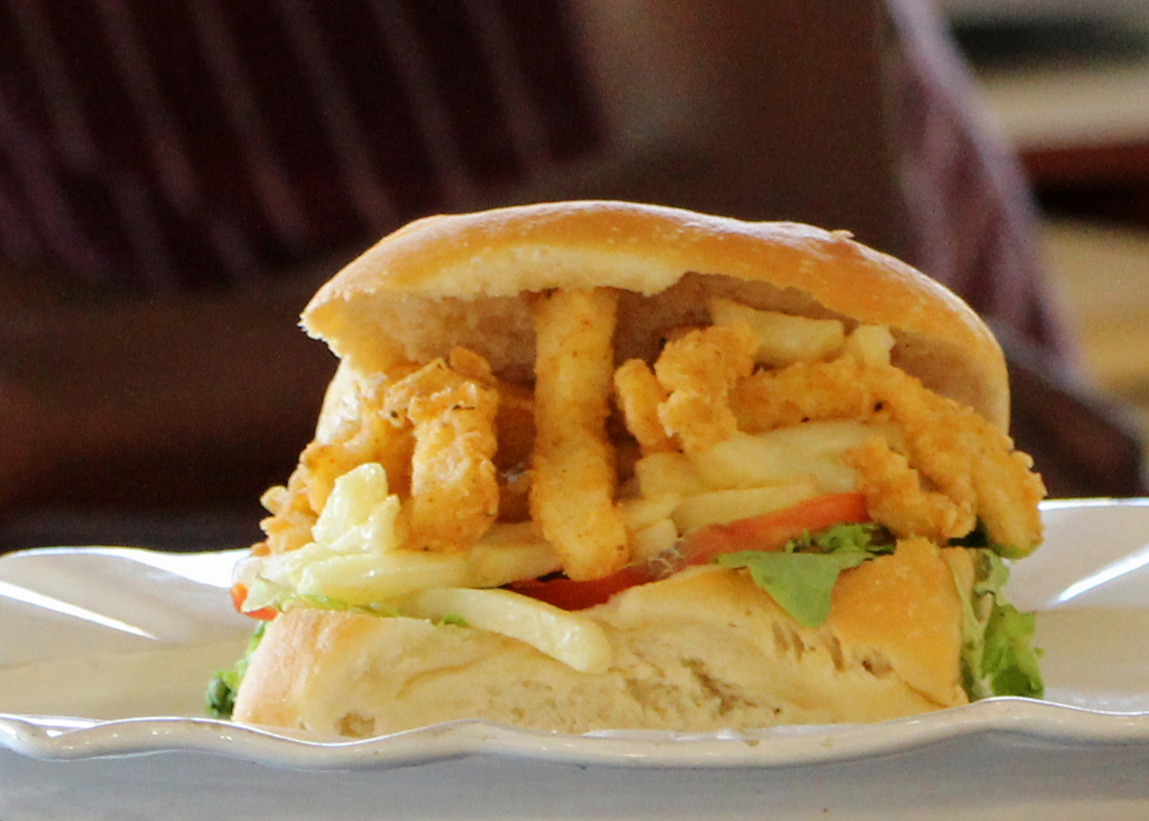 Gatsby sandwich filled with calamari and chips for sale at The Fish Stop stall at Root44 Market, Stellenbosch, South Africa